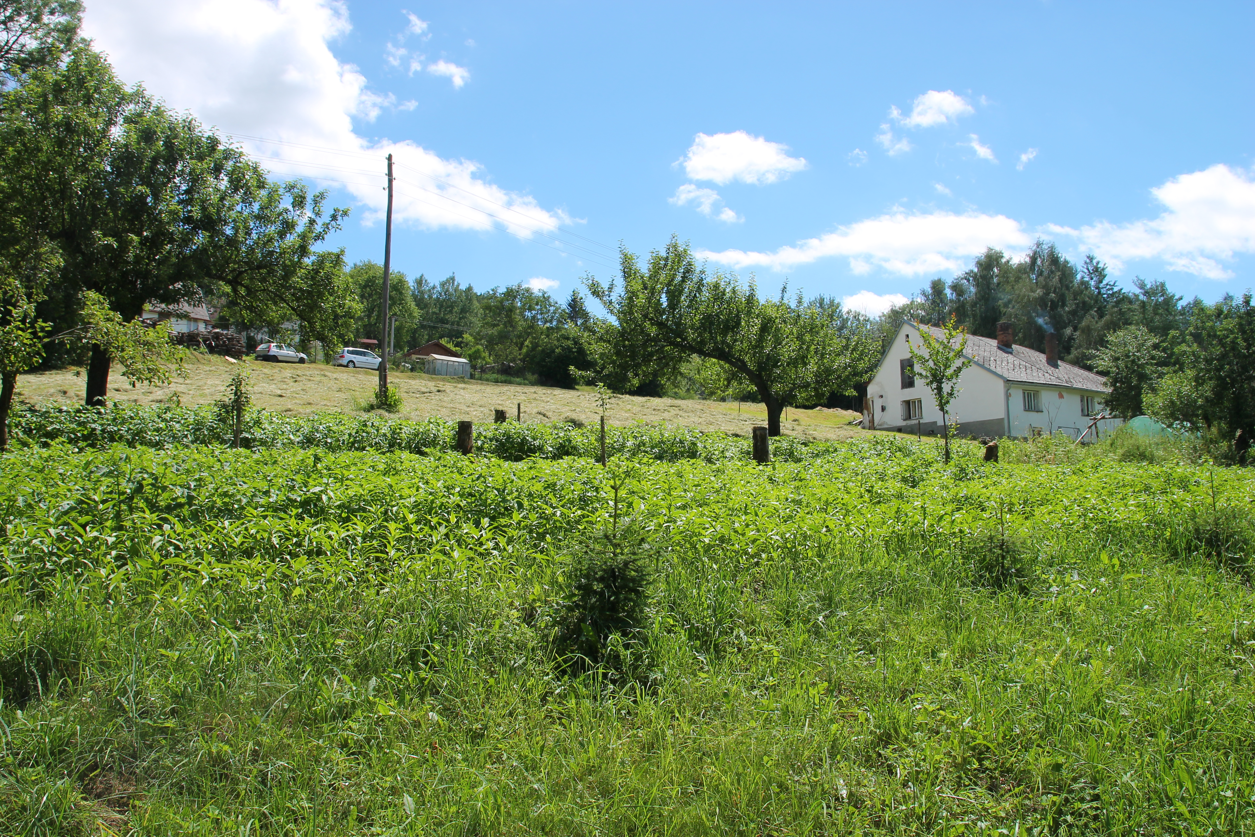 Brdo, Svatá Maří